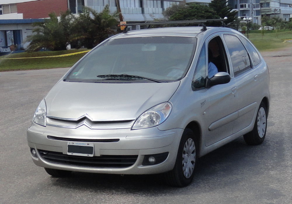 Citroën Xsara Picasso facelift photografed in Punta del Este 2015